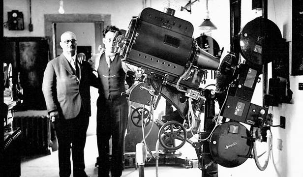 Gus Kerasotes (on the left) in the projection room of the Strand Theatre that he built in Springfield Illinois. The machine is a Simplex and is a hand run motion picture projector.